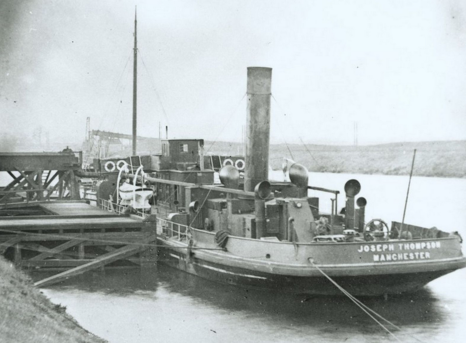 The "Joseph Thompson" sludge carrier loading sludge at Davyhulme Sewage Works, Manchester, England in 1898